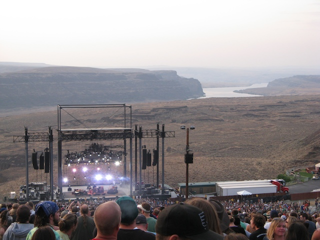 The Gorge Amphitheatre